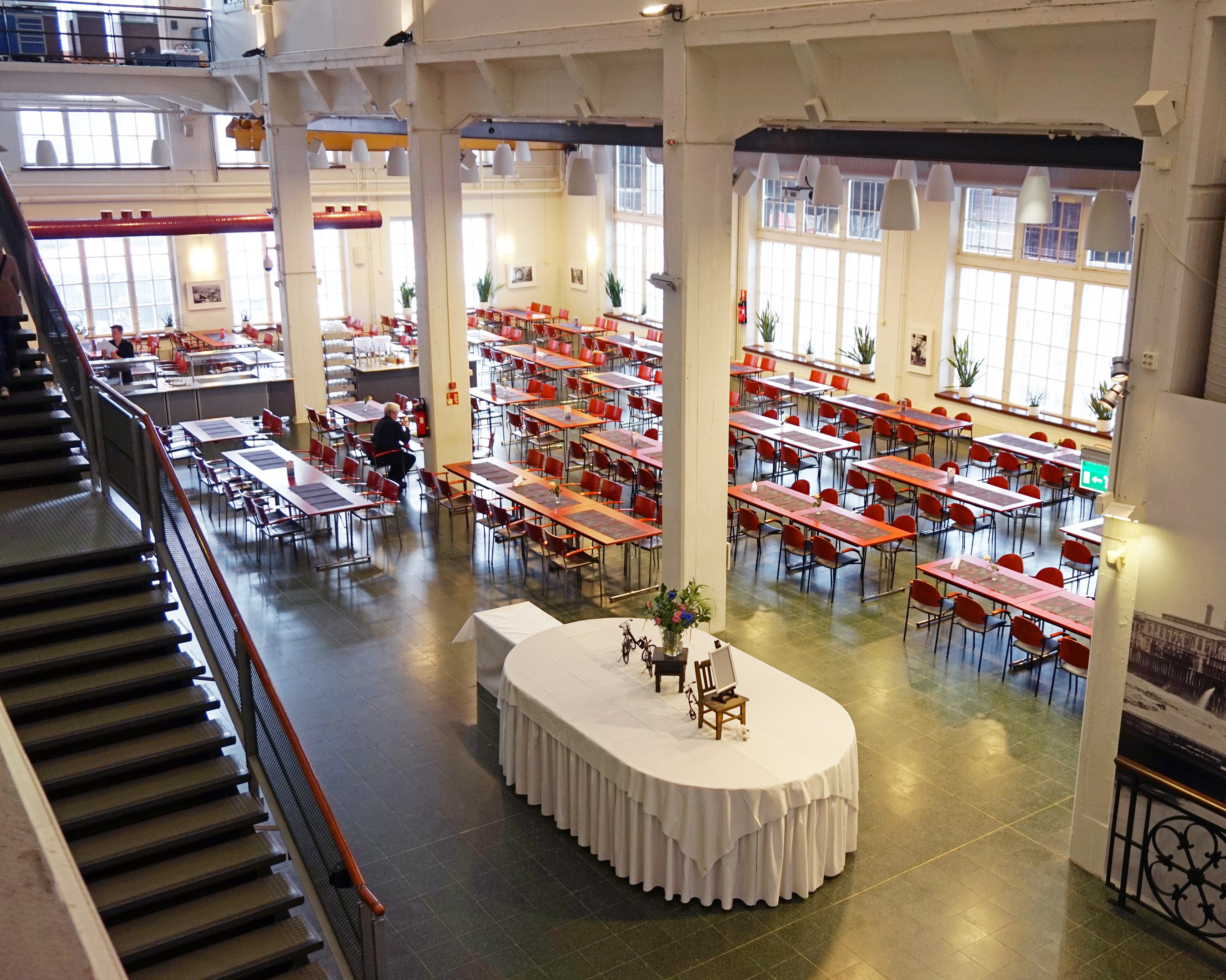 Museum restaurant Valssi in Vapriikki Museum Center, Tampere.